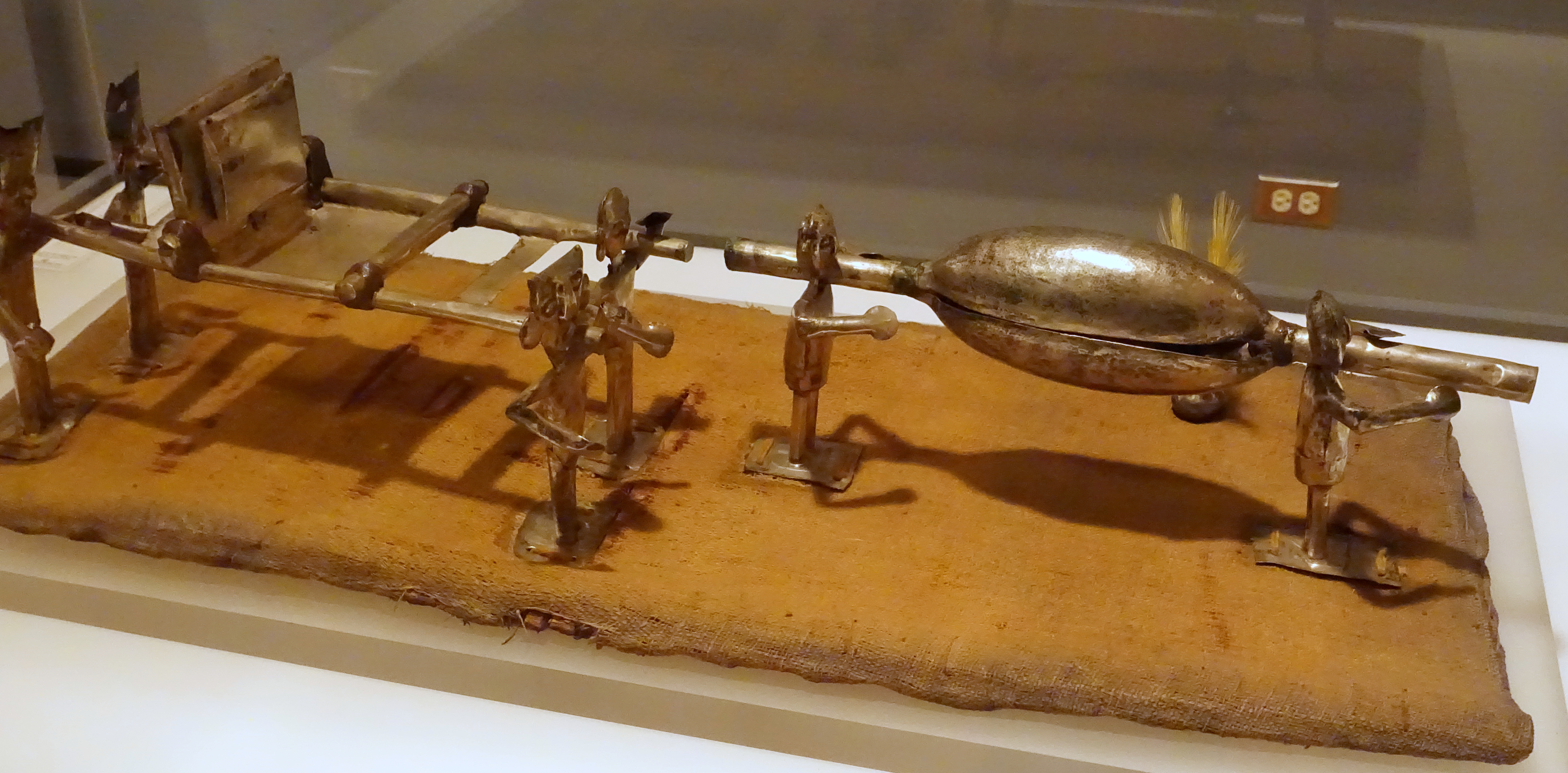 Exhibit in the Krannert Art Museum, University of Illinois at Urbana-Champaign - Urbana-Champaign, Illinois, USA. This work is old enough so that it is in the public domain.